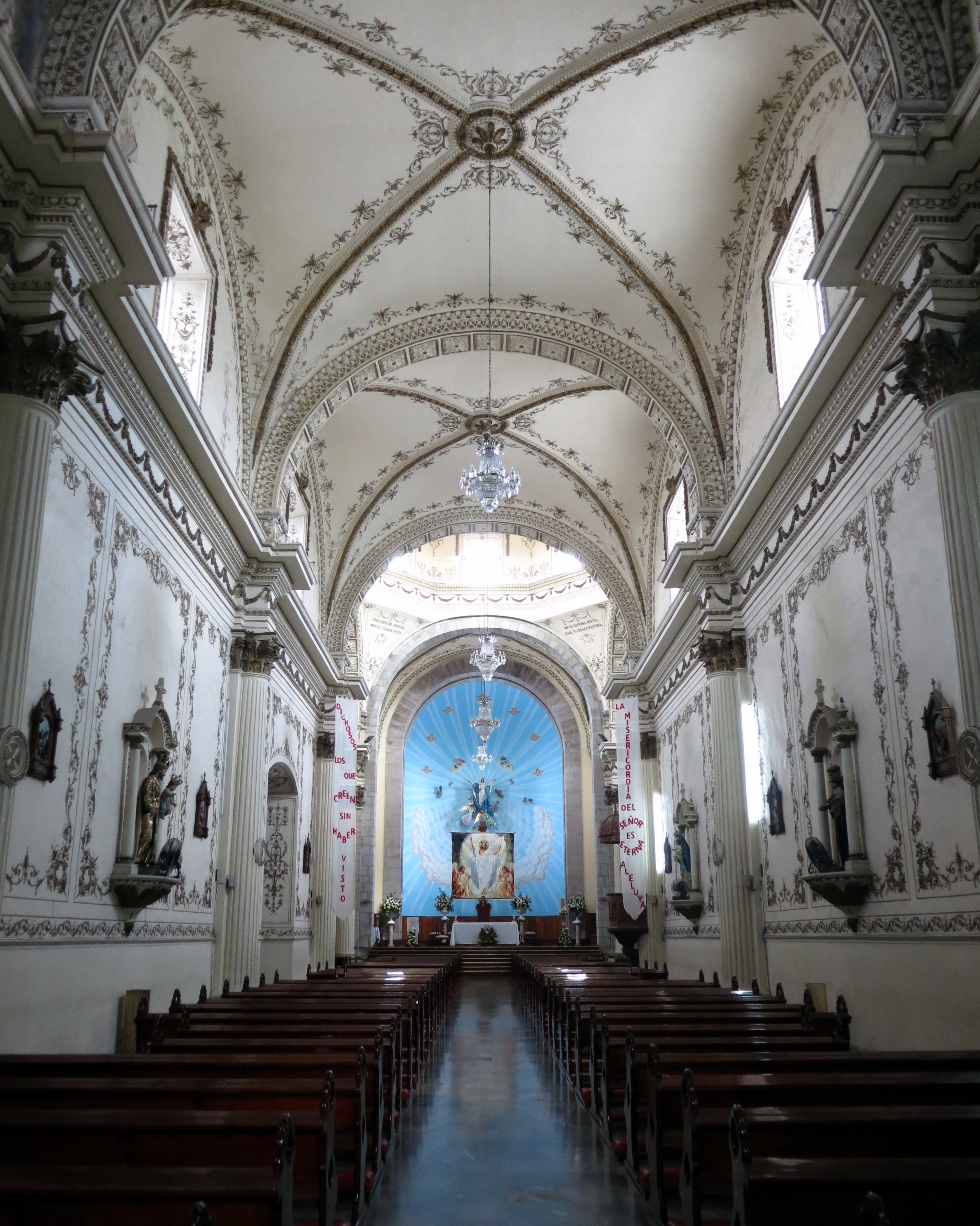 Catedral de la Purísima Concepción (Tepic, Nayarit) - nave